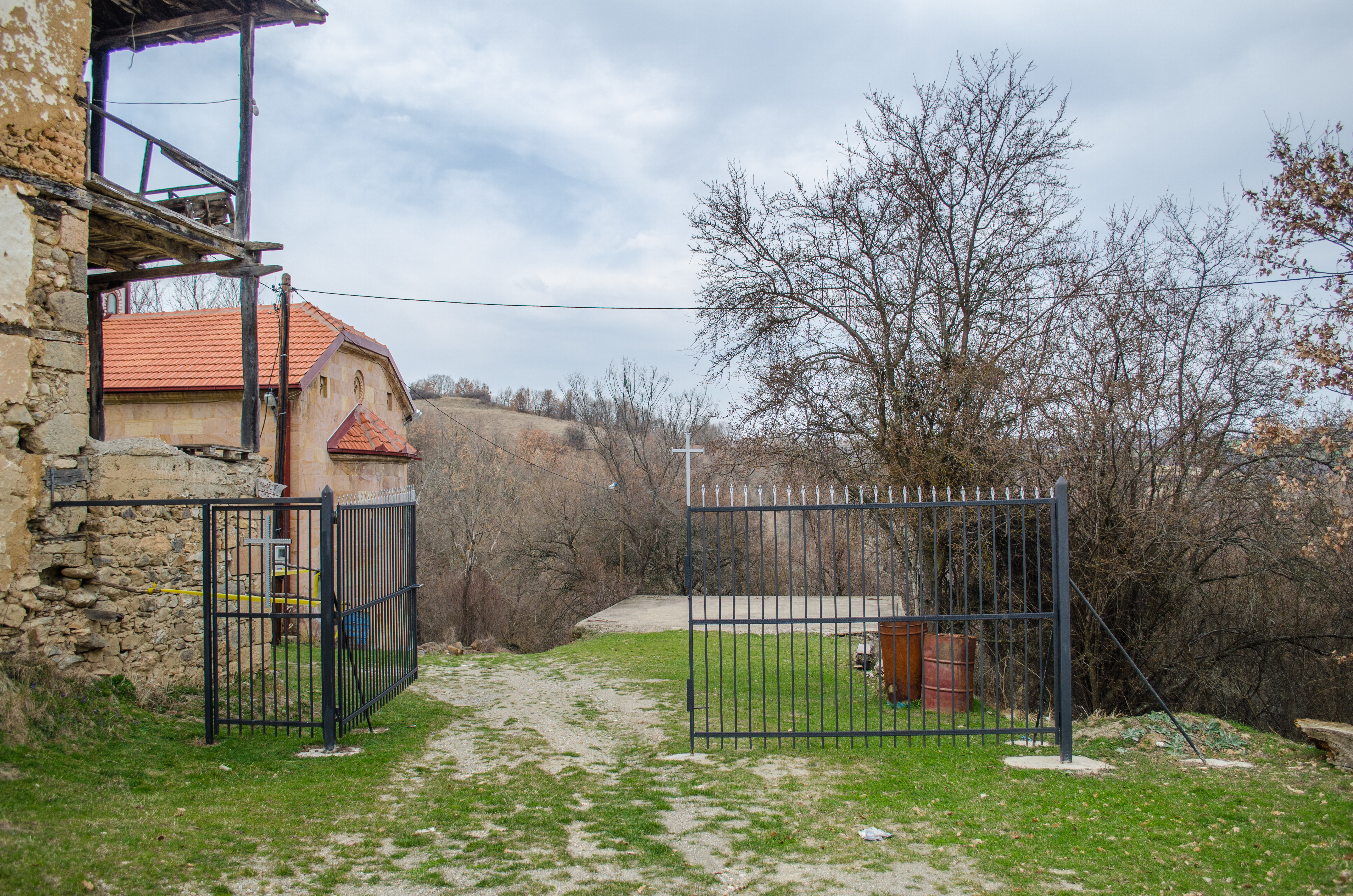 The opening gate of the Zabel monastery, Macedonia